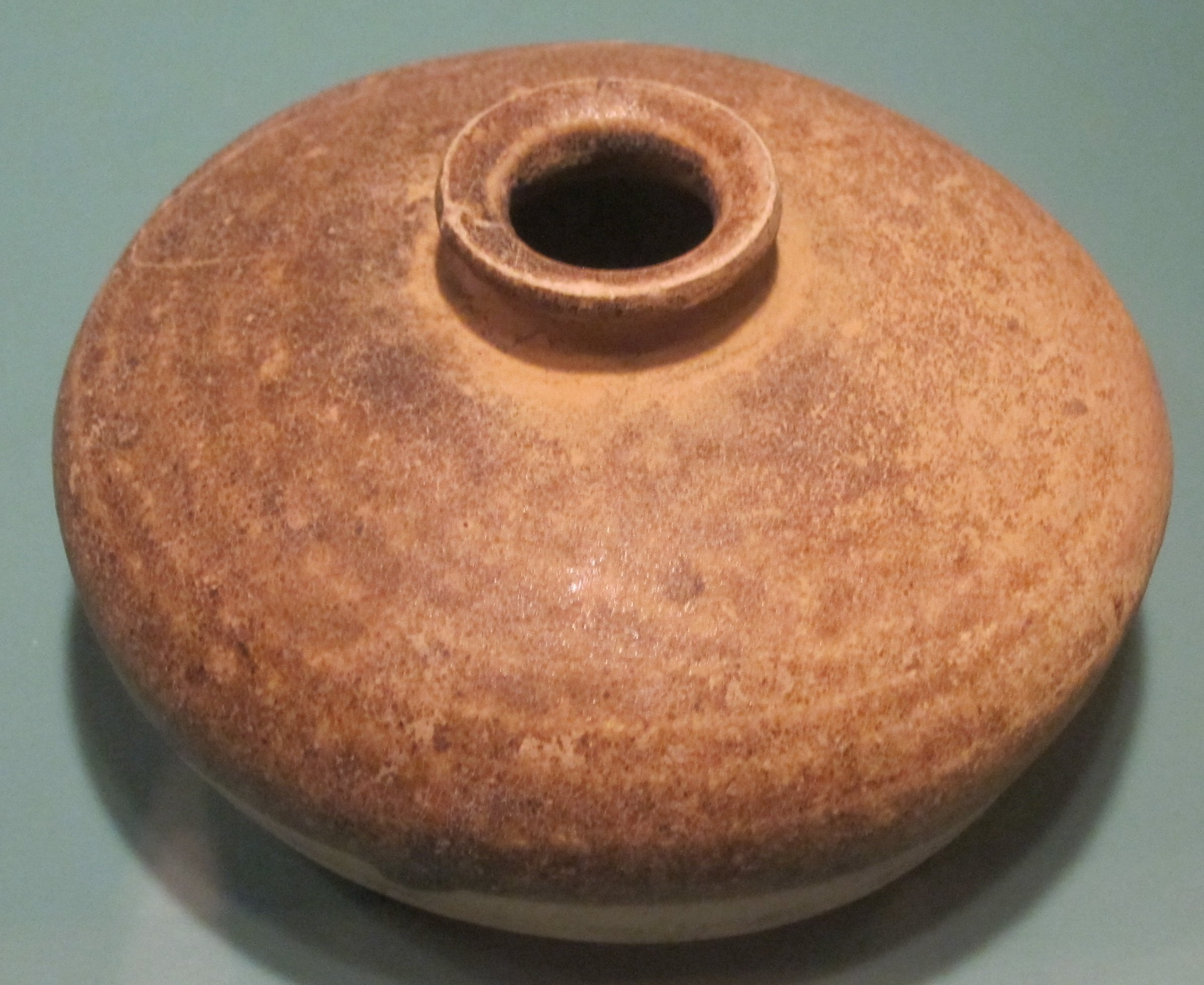 Jar, Republic of the Philippines, 100 CE – 1400 CE, ceramic, Honolulu Museum of Art